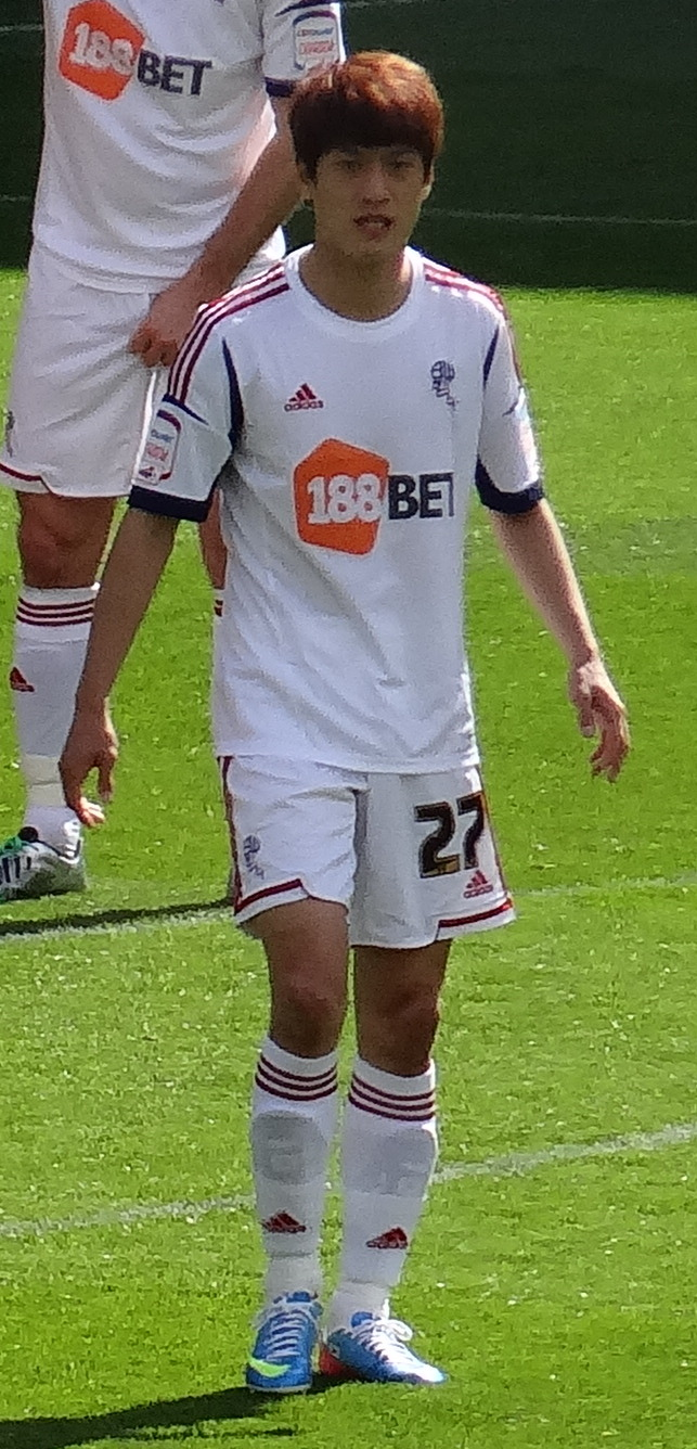 27/04/13 Cardiff City v Bolton, Championship, Cardiff City Stadium, Cardiff, Wales